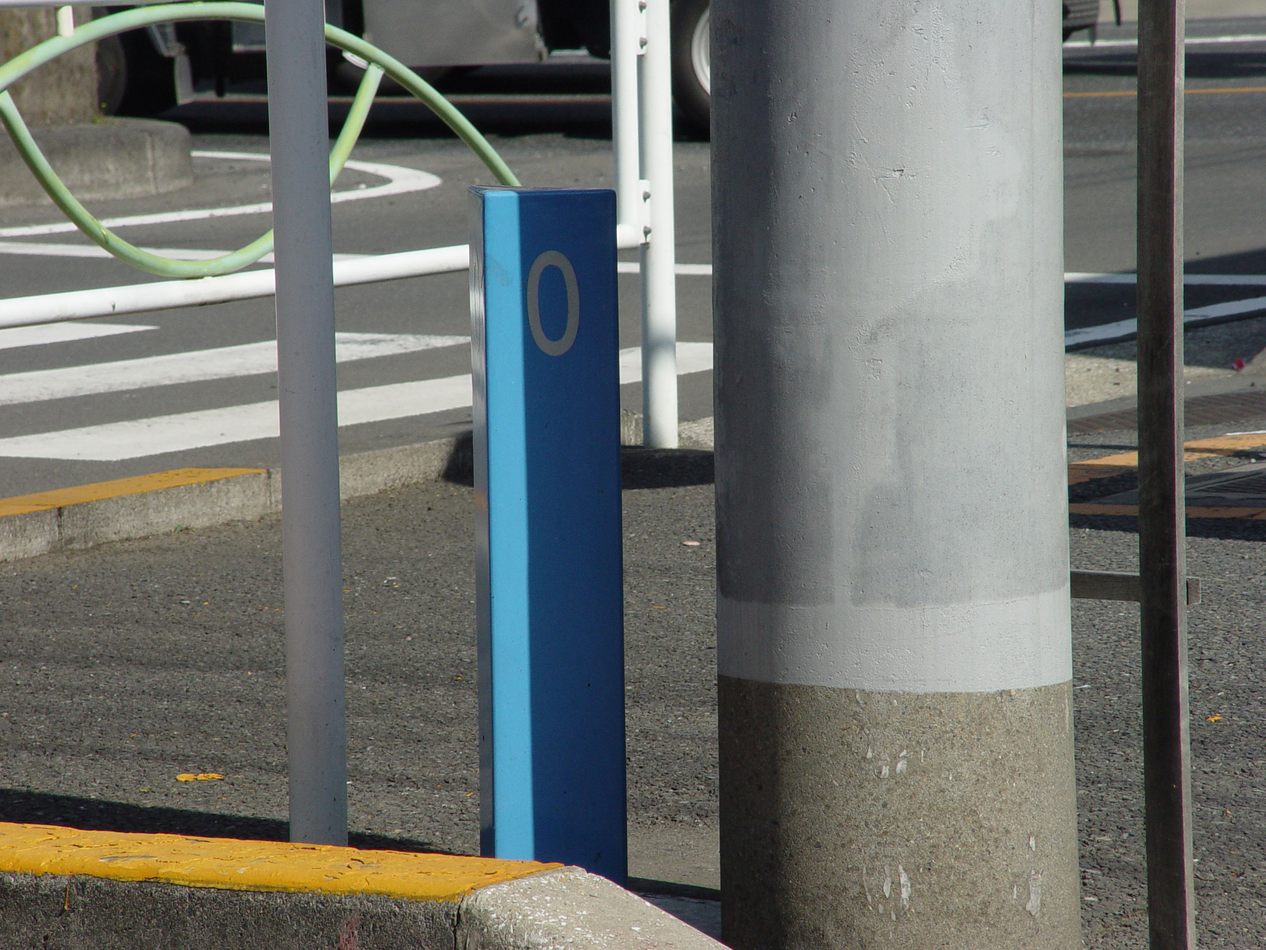 0 km post of Tokyo prefectural road route 229